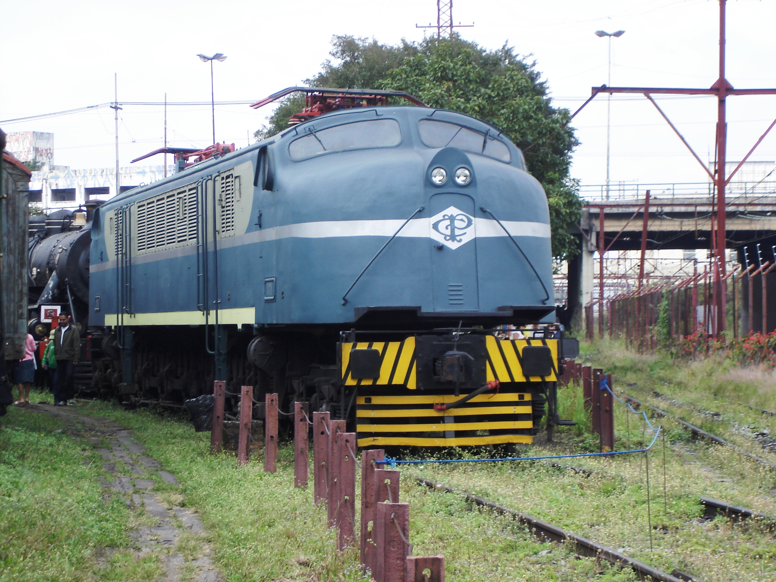 Electric locomotive built by GE in the U.S., originally for the Paulista Railroad, operated in Fepasa and today is part of the acquis of ABPF-SP. Bears its first standard paint.